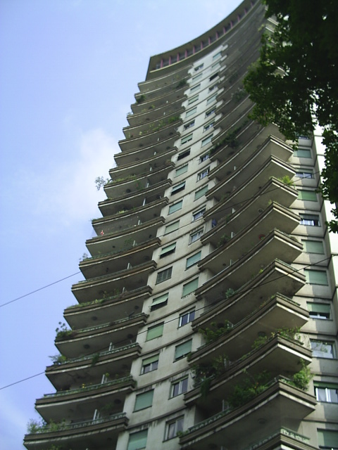 Building in downtown of São Paulo City.